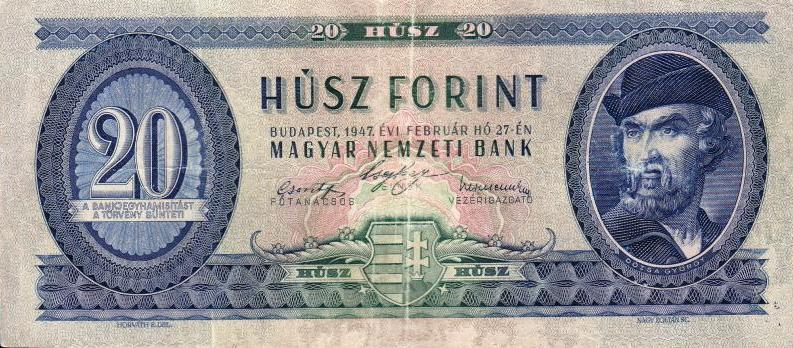 20 Hungarian forint (1947) - obverse. Picture: György Dózsa, leader of peasant revolt.